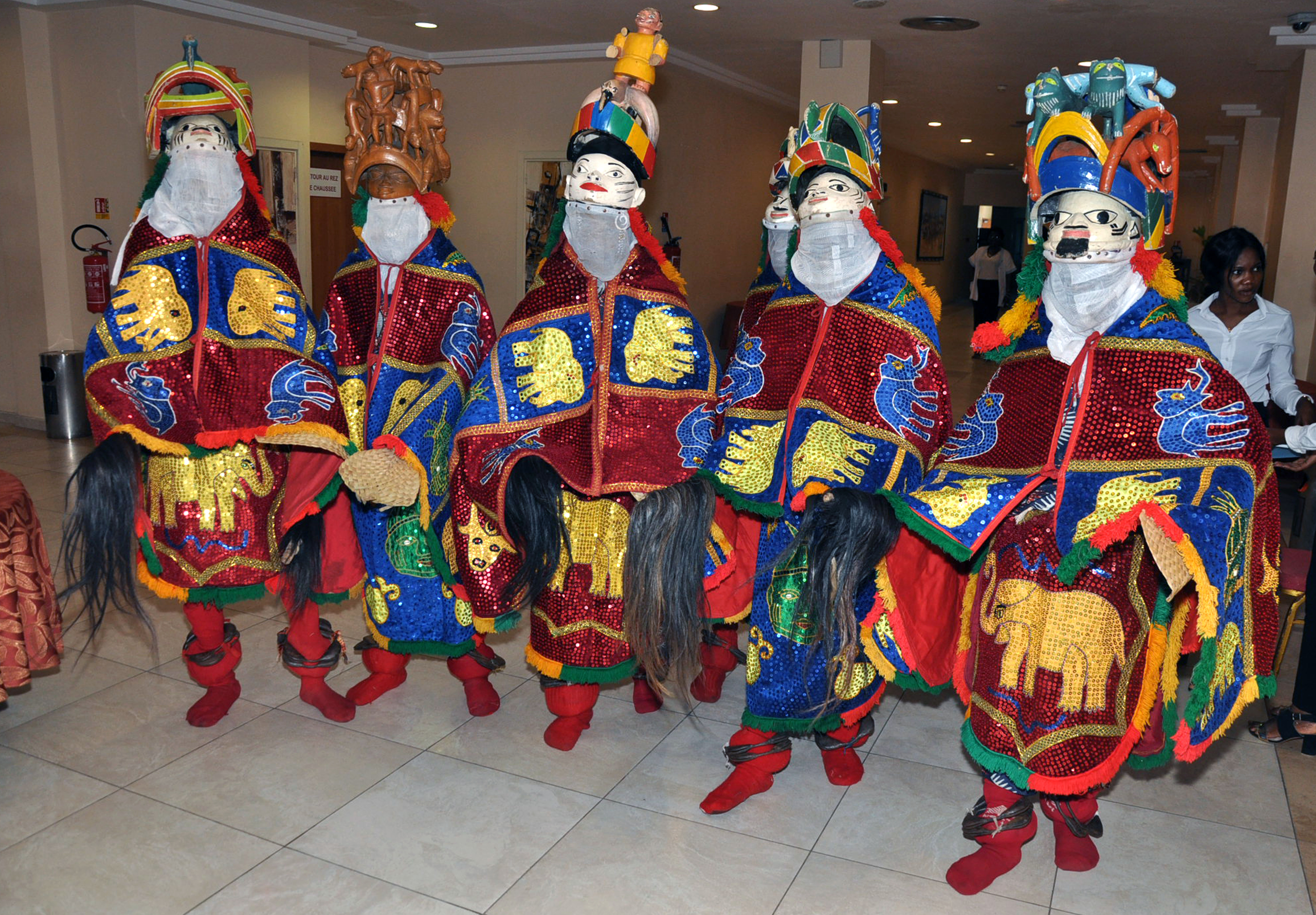 Guèlède dance to amaze the peoples of Beninese diversity This is an image with the theme "Africa on the Move or Transport" from: Benin